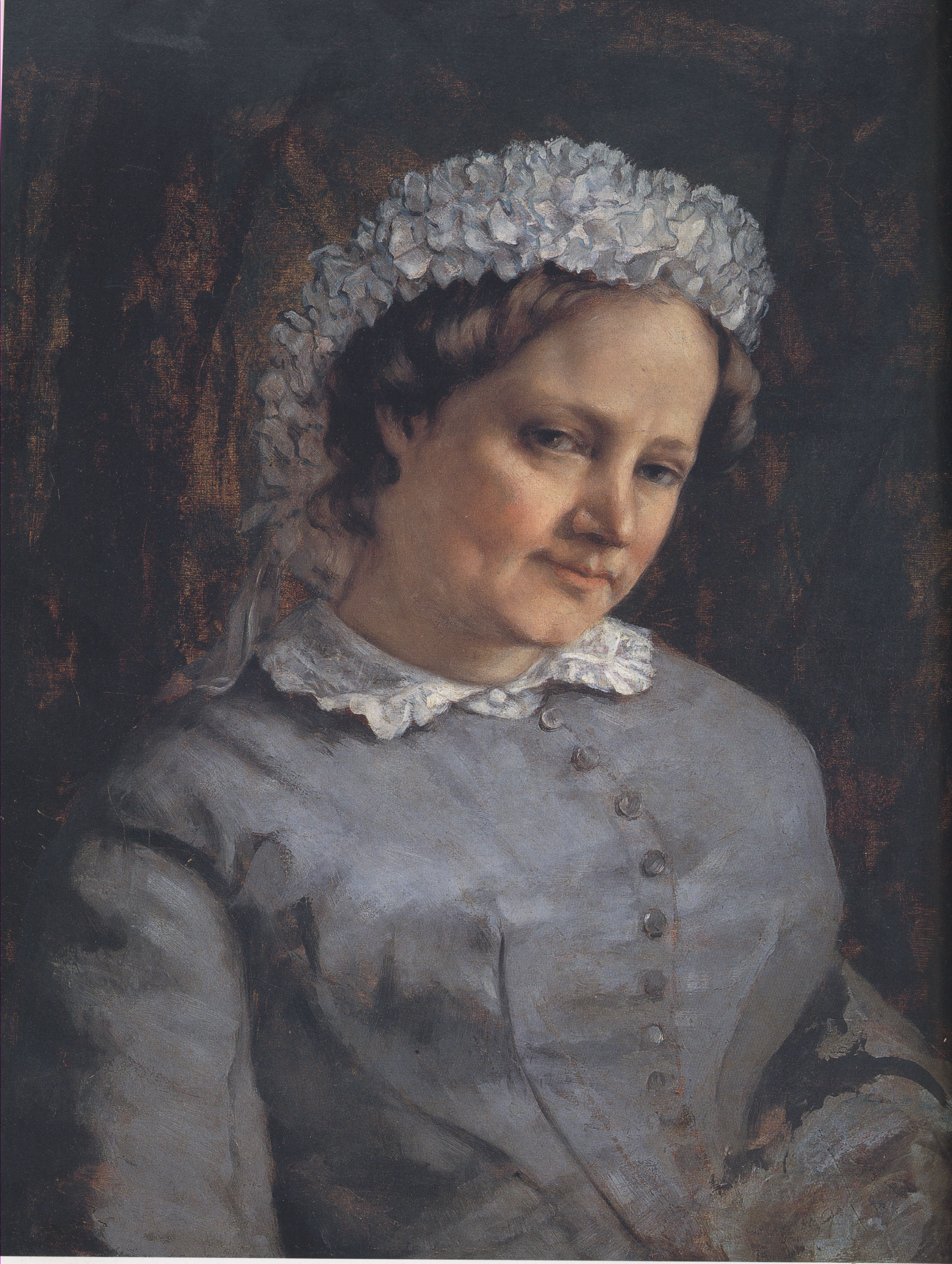 wife of radical social thinker Pierre Proudon.